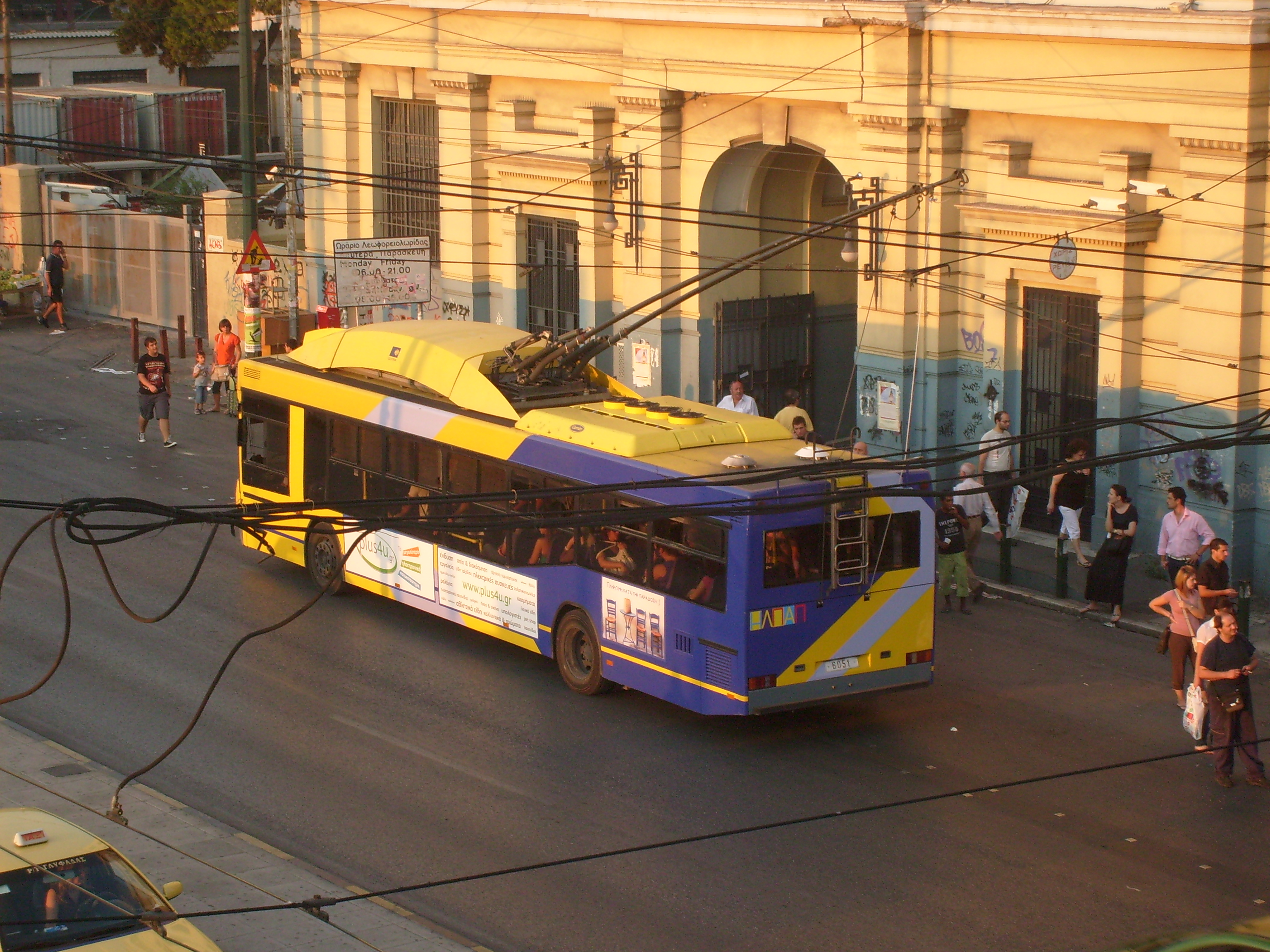 A trolley bus outside Piraeus Railway Station, near Athens. Trolleybus 6051 is a Neoplan N6014, built in 1999.